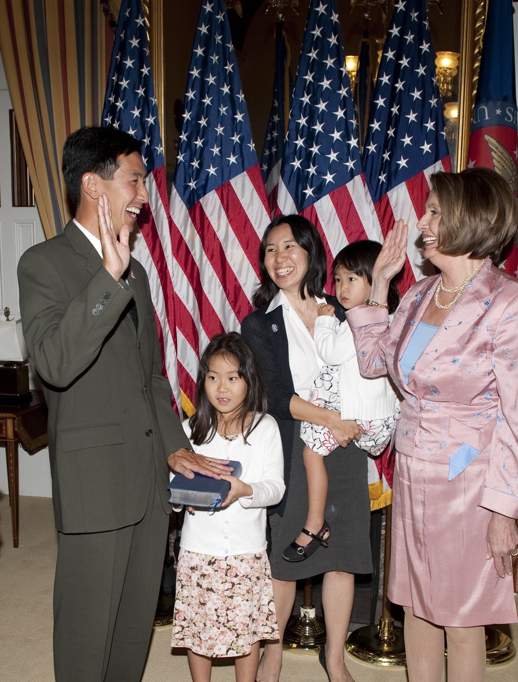 Swearing in of Rep.Charles K. Djou (R-Hawaii), with then House Speaker Nancy Pelosi.